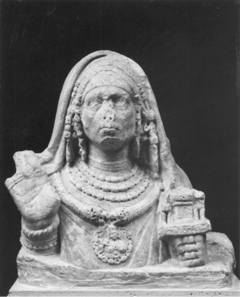 A marble bust of a priest of the Phrygian goddess Cybele, Capitoline Museums (see galli).